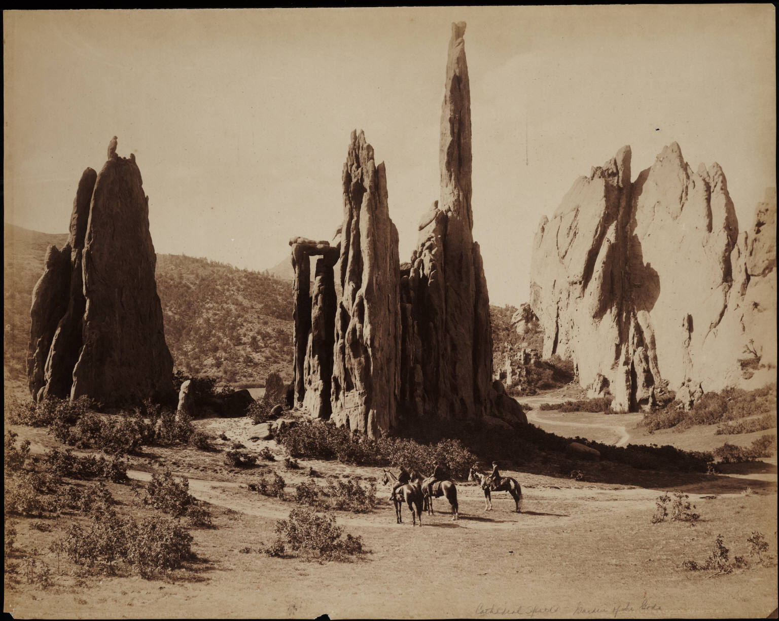 "A view of individuals sitting on horseback in the Garden of the Gods near sandstone rock formations identified as Cathedral Spires, Colorado Springs (El Paso County), Colorado. Shows a dirt road and trees." Mammoth plate photograph by American photographer William Henry Jackson. Courtesy of the Mammoth Plate Collection, Yale Collection of Western Americana, Beinecke Rare Book and Manuscript Library, Yale University, New Haven, Conn.